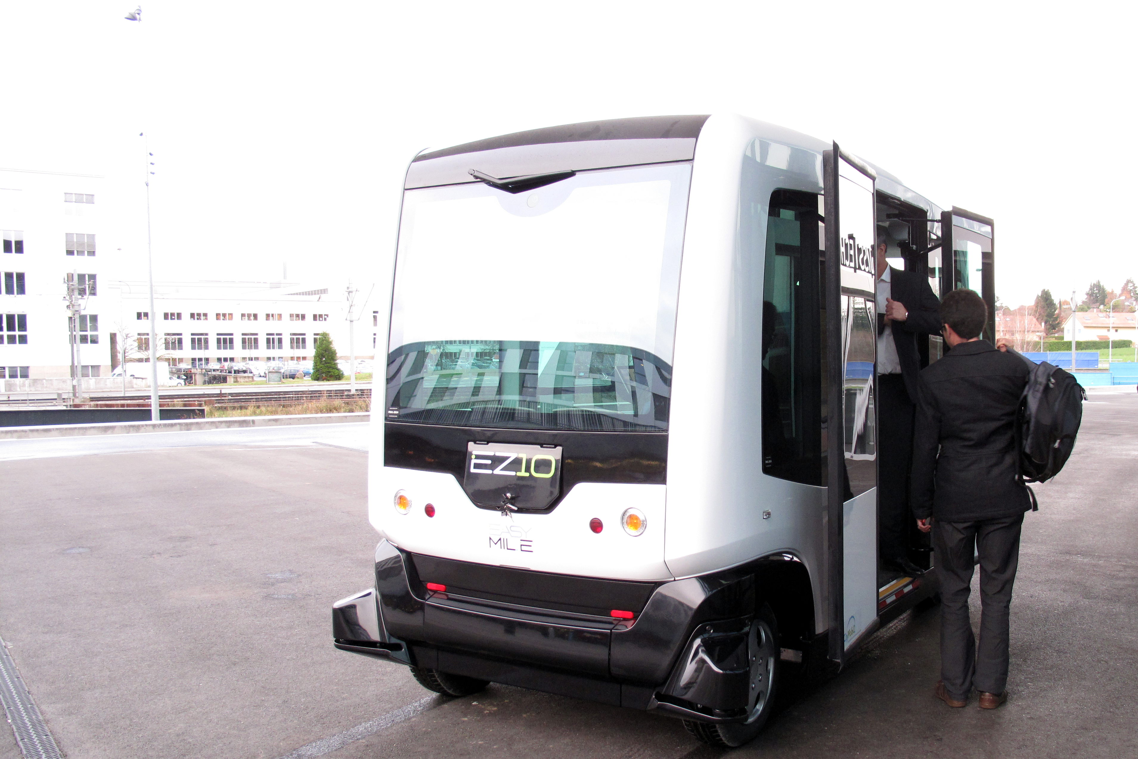 Ligier EZ-10 autonomous electric minishuttle being demonstrated in front of the EPFL Conference Centre.